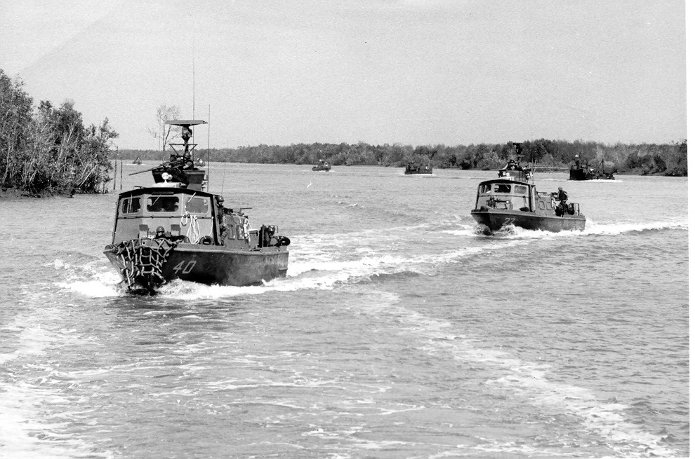 Fast Patrol Crafts (PCF, Swift boat) operating up a river in Vietnam, in background Monitors and Landing Crafts